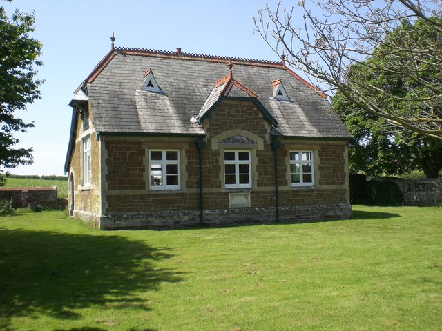 Old Schoolhouse Now, I think, a dwelling.